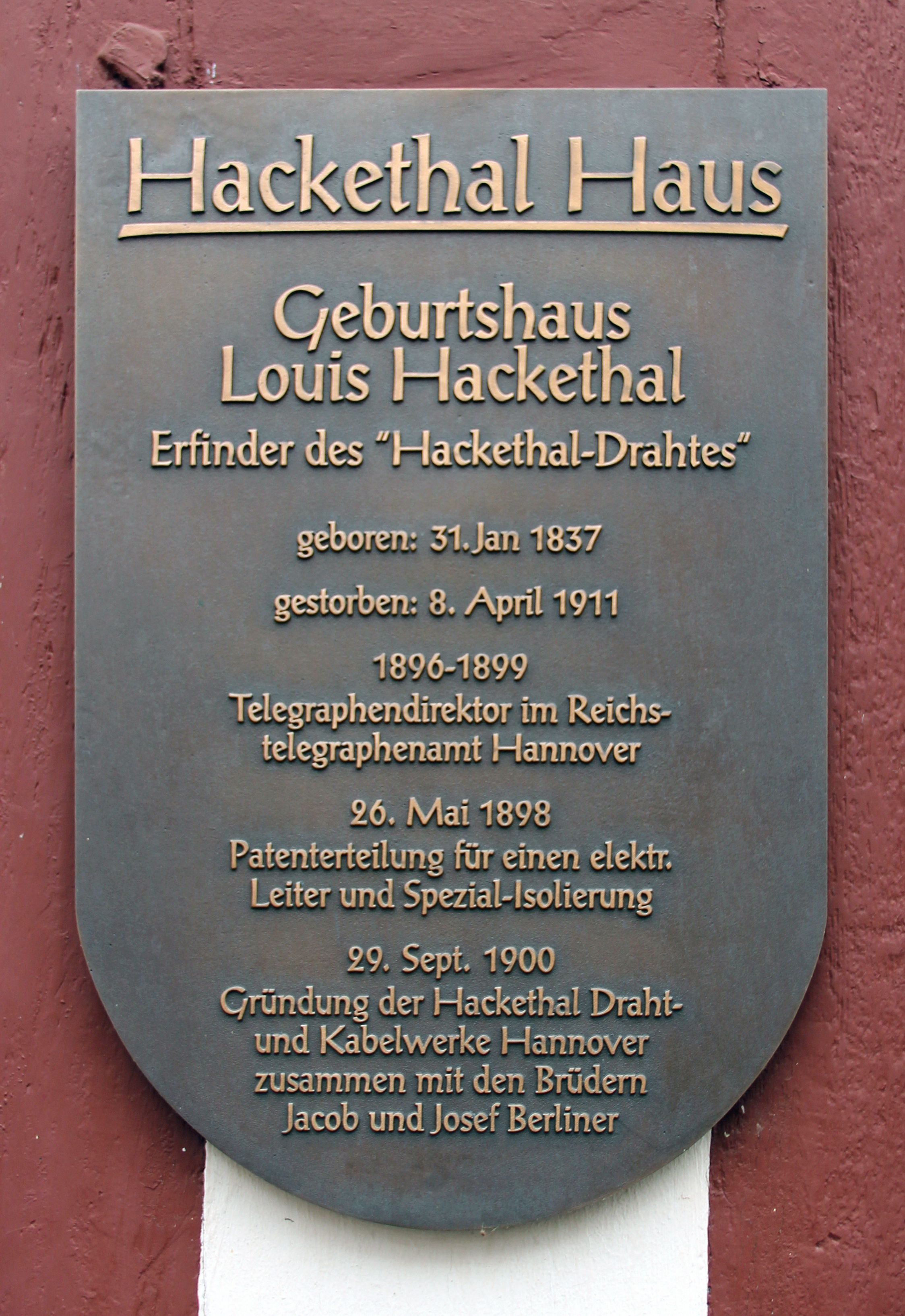 Memorial plaque, Louis Hackethal, Scharrenstraße 20, Duderstadt, Deutschland